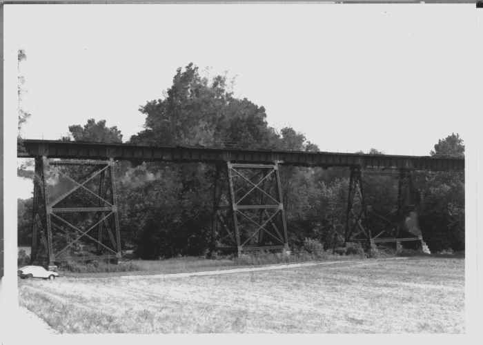 Looking westward at Frederick county spans, taken in 1991